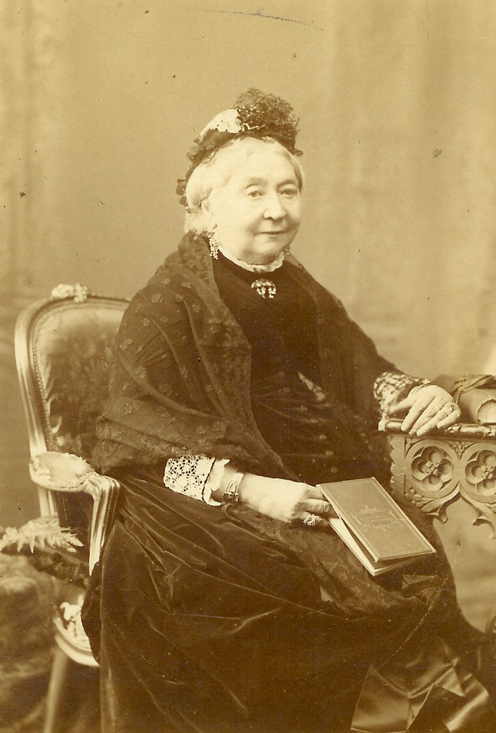 Mrs Henry Barnett, Emily Ann Stratton (1816-1883)